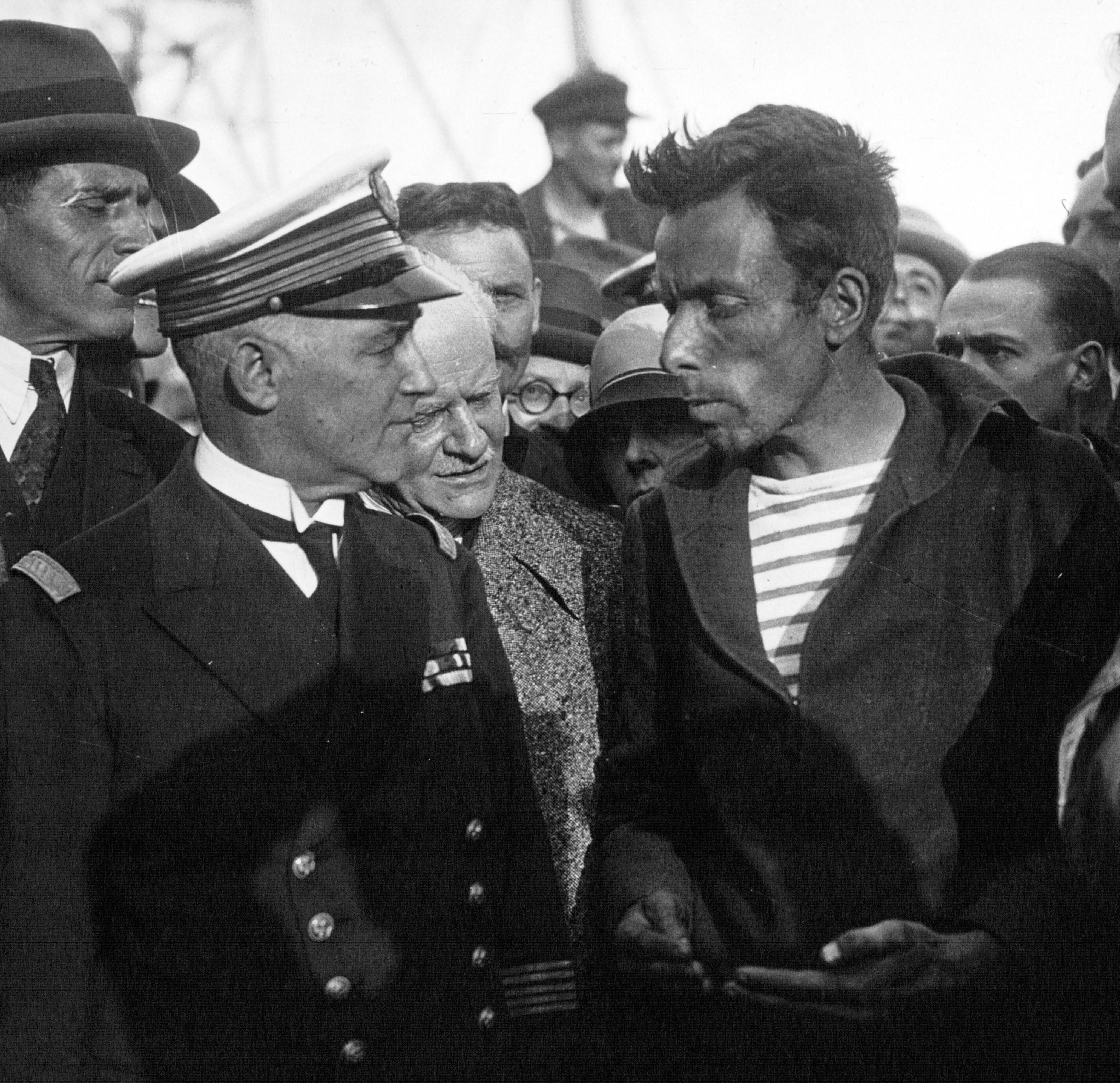 French sailor Alain Gerbault (right) on his arrival at Le Havre in 1929.